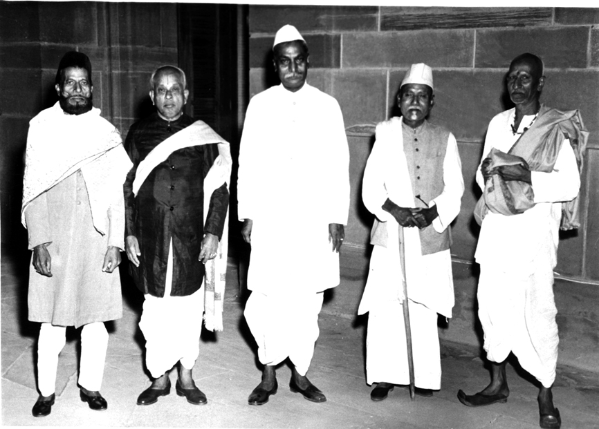 Four distinguished Indian Musicians, Ustad Mushtaq Hussain, Shri Ariyakudi Ramanuja Iyengar, Ustad Allauddin Khan and Shri Karaikudi Sambasiva Iyer, called on the President at Rashtrapati Bhavan on March 20, 1952. Photo shows Ustad Mushtaq Hussain; Shri Ariyakudi Ramanuja Iyengar; Ustad Allauddin Khan and Shri Karaikudi Sambasiva Iyer with the President, Dr. Rajendra Prasad. (The Musicians received awards from the President at the special function held in New Delhi in March 1952. This was in pursuance of the decision of the Central Govt. to make four awards every year to distinguished Indian musicians in the four categories viz. Hindustani (Vocal); Hindustani (Instrumental); Carnatic Music (vocal) and Carnatic music (Instrumental).